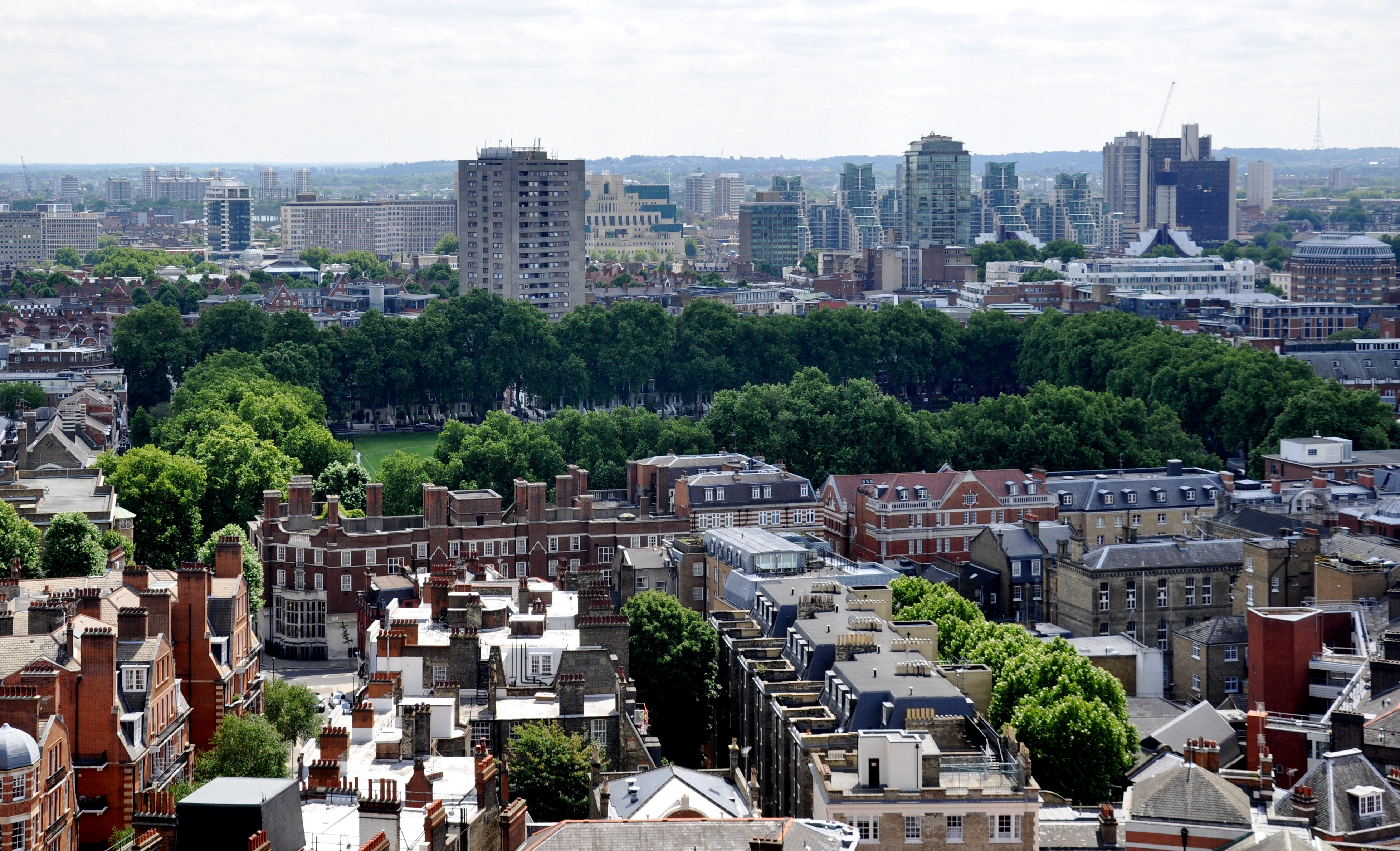 London, view from the tower of Westminster Cathedral: view towards Vincent Square (sports grounds of Westminster School)